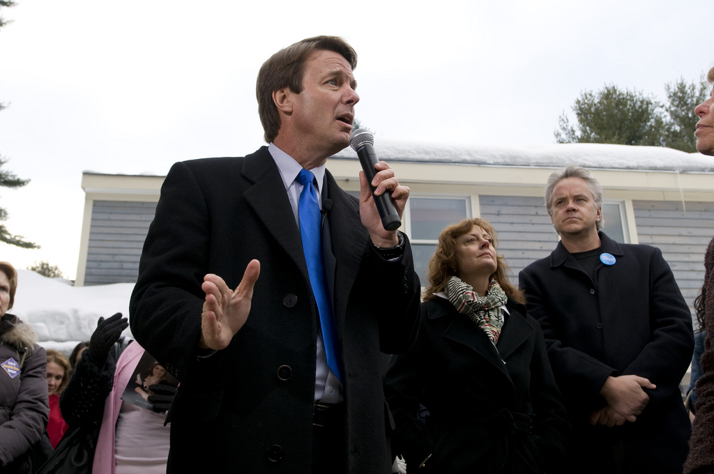 Bedford, NH, January 7, 2008: John and Elizabeth Edwards attended a house party at the home of Peter and Joanne Smith, in Bedford, NH. They were joined by actors Susan Sarandon, Tim Robbins and James Denton. Also joining them at the house party were Hilda, Grigort and Bedig Sarkisyan, the family of Nataline Sarkisyan, the 17 year old who died as a result of being denied a liver transplant by Cigma, a health insurance company. John Edwards answered questions from voters and media.